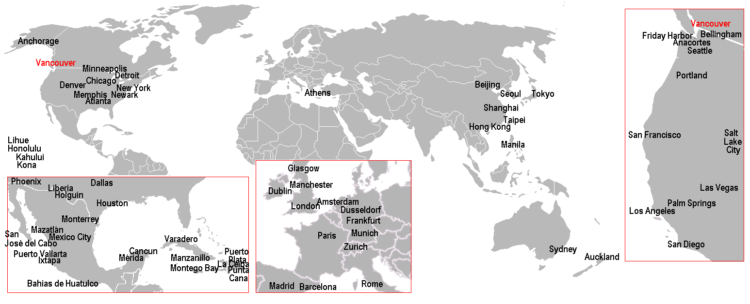 International cities with direct flights to YVR